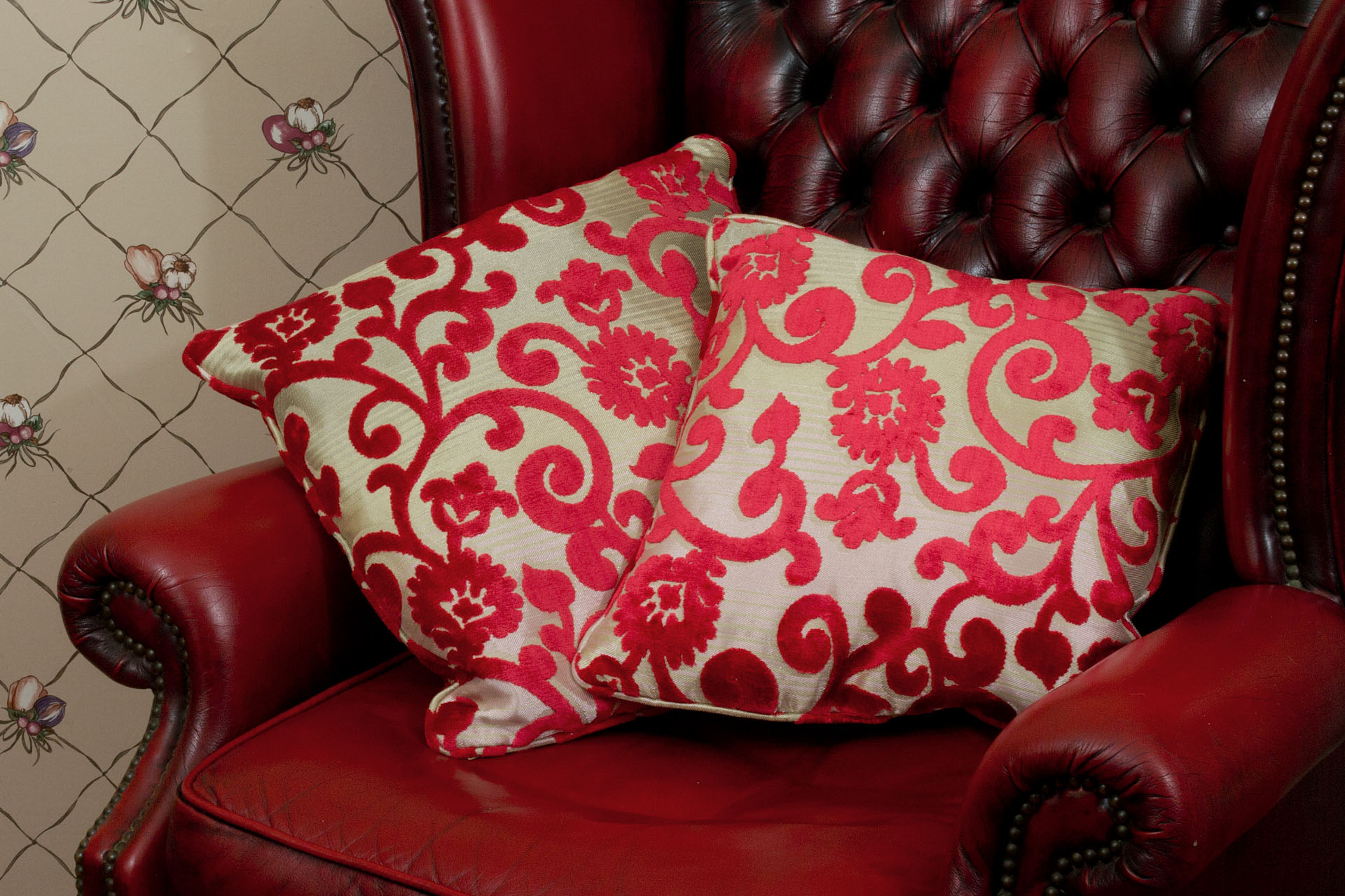 Pair of typical square throw pillows (scatter cushions) on a leather wingback chair.